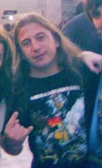 Antonio Romano in Iron Maiden's concert in Buenos Aires.